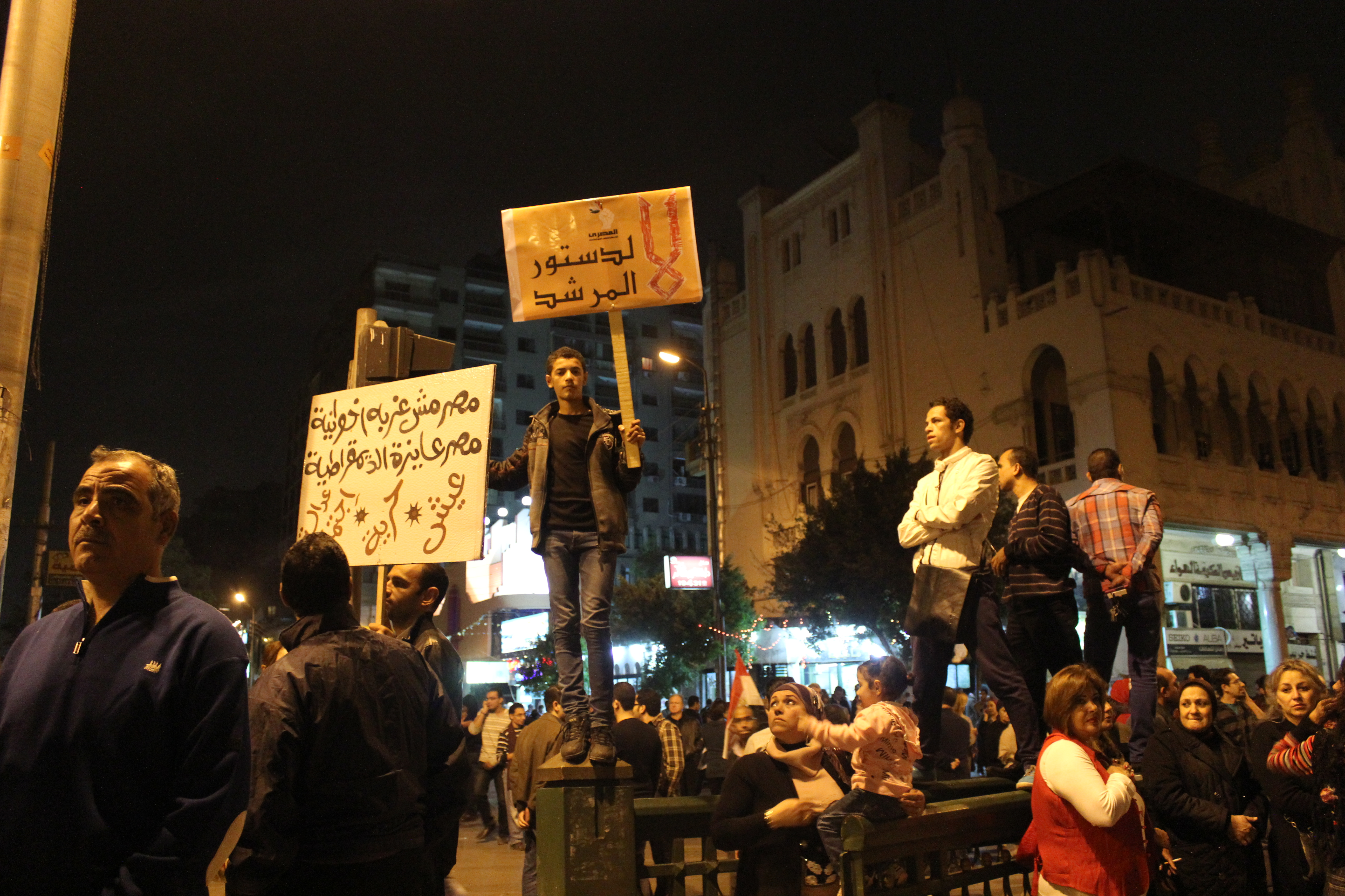 Presidential Palace Siege #Egypt